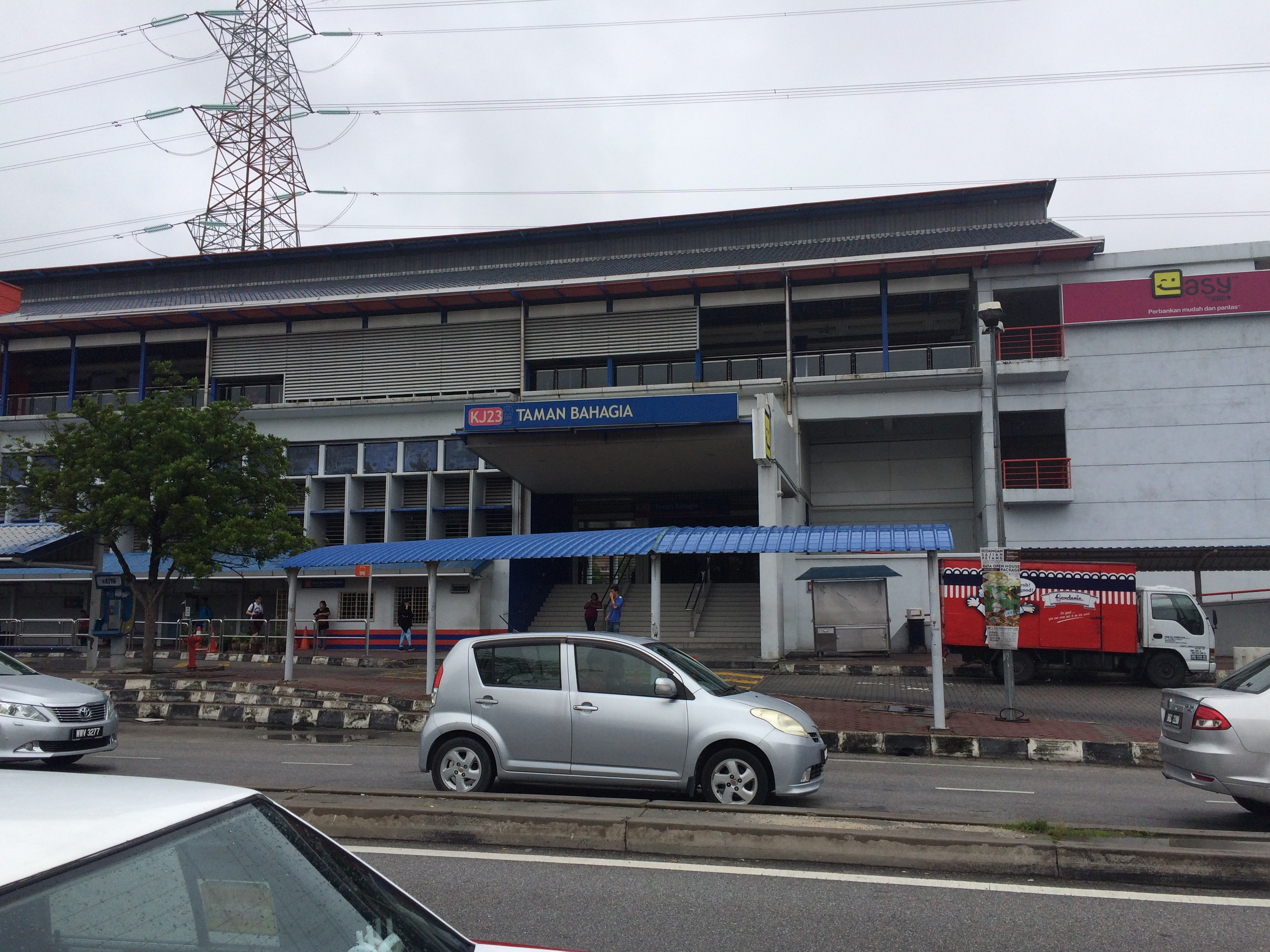 Taman Bahagia LRT - 2